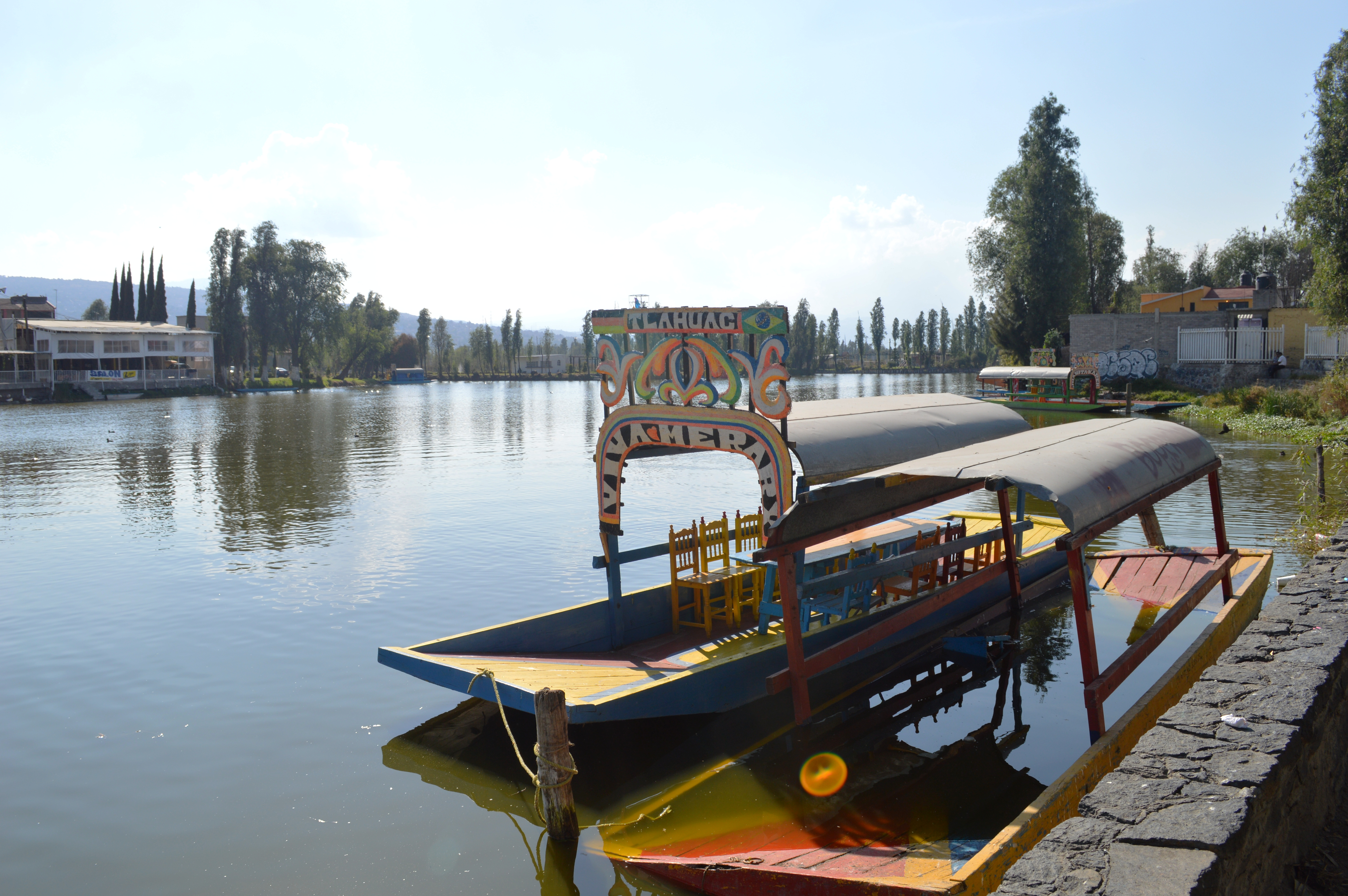 Boasts at the docks of Lago de los Reyes in Tláhuac, Mexico City